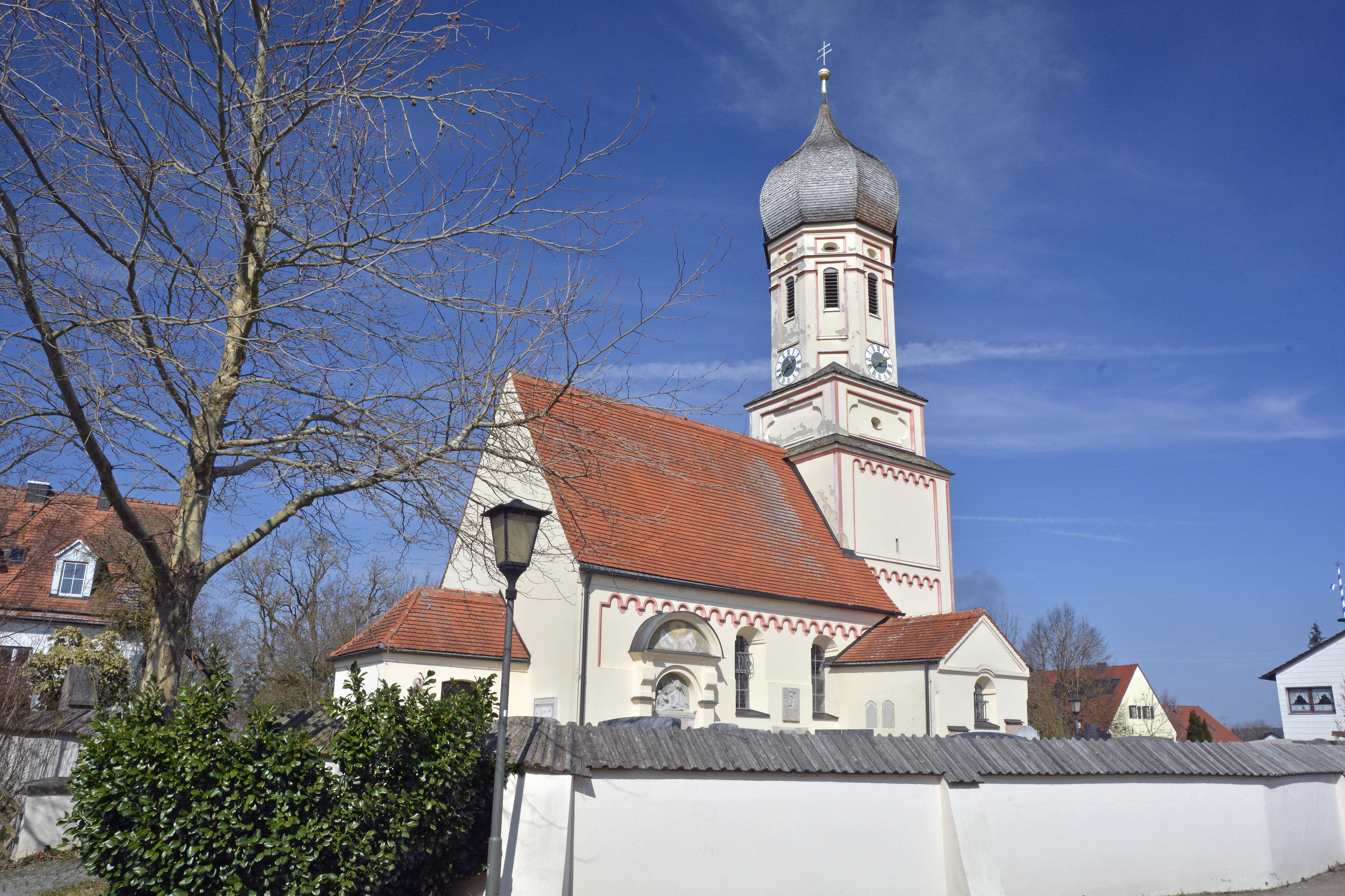 St. Peter and Paul Church, Asbach (Petershausen, Obb.)